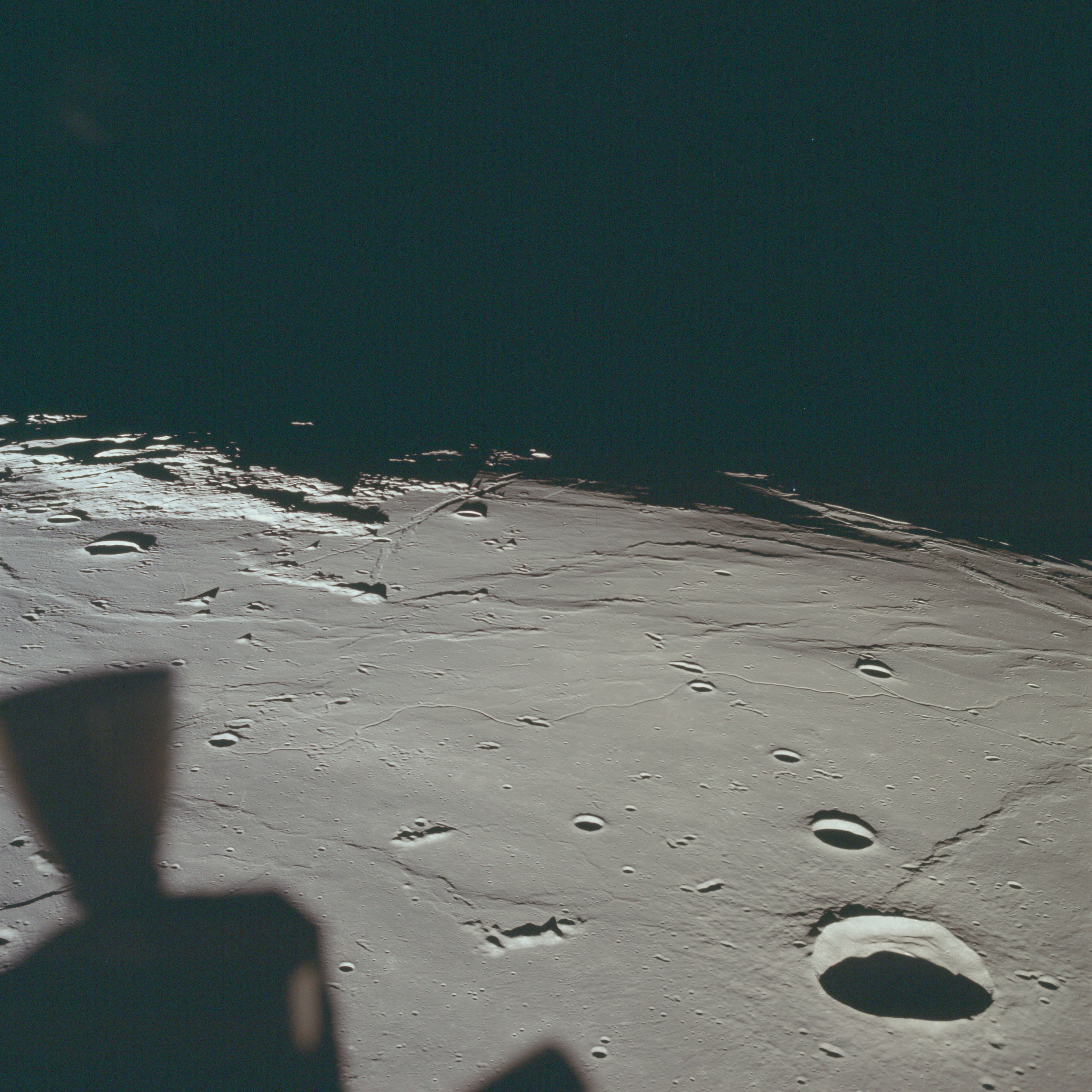 Photo from Apollo 11 mission to the moon. AS11-37-5437.